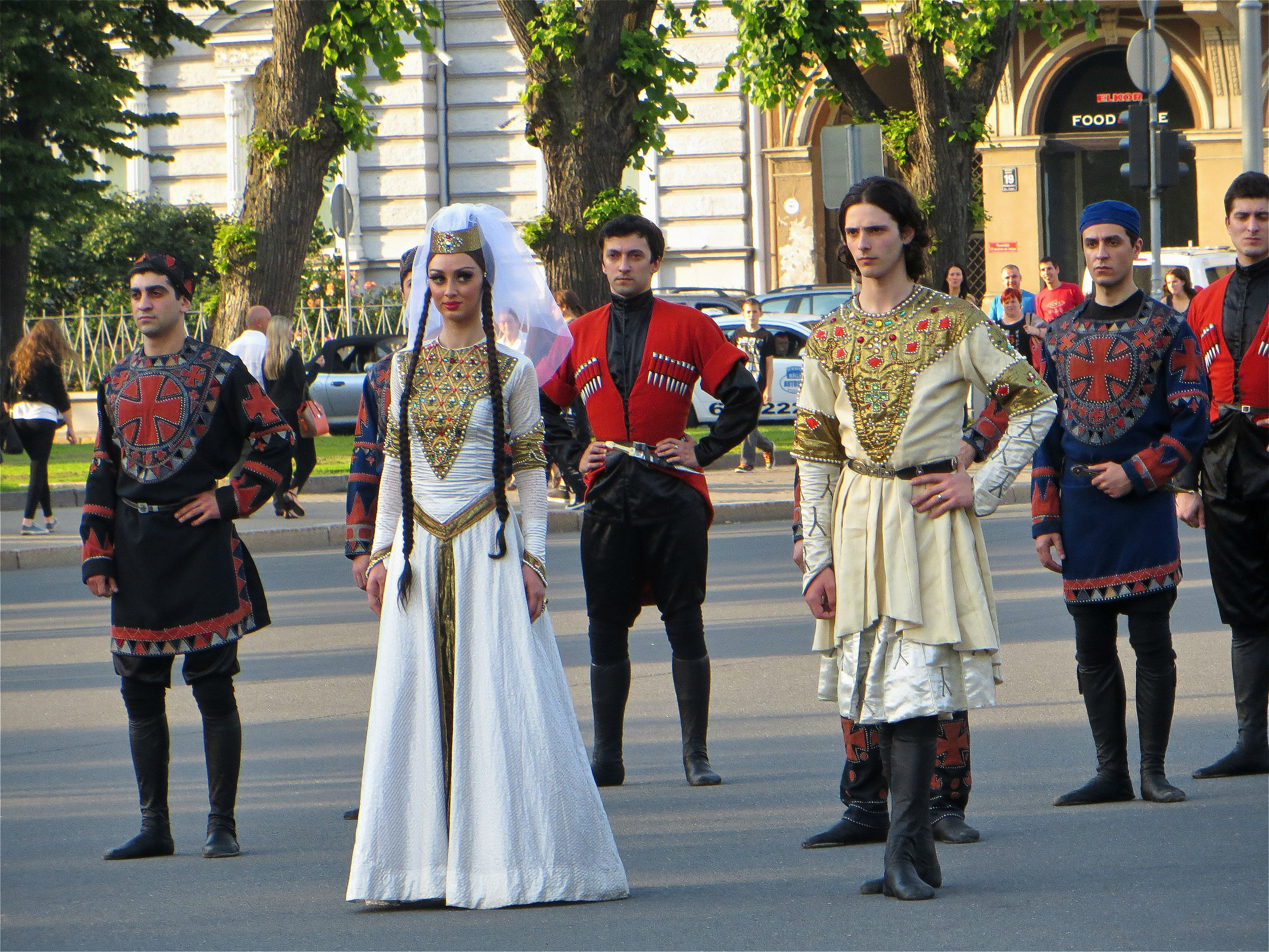 Georgian dancers accompanying delegation of their country